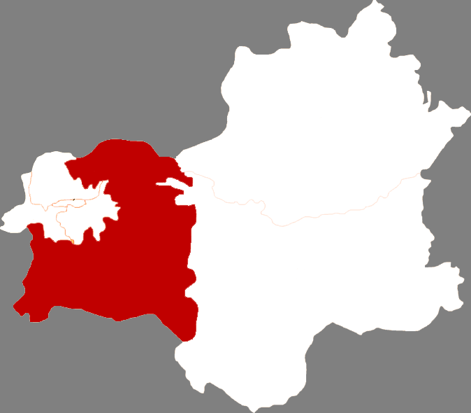 Location of Fushun county in Fushun City, China